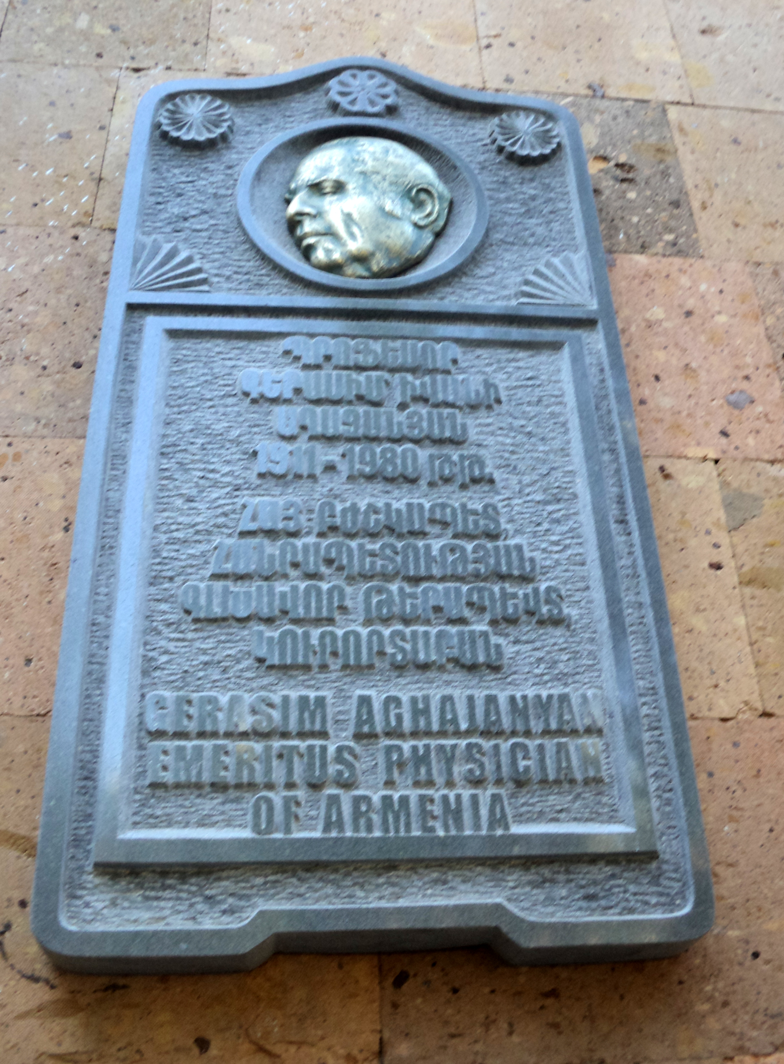 Gerasim Aghajanyan's plaque